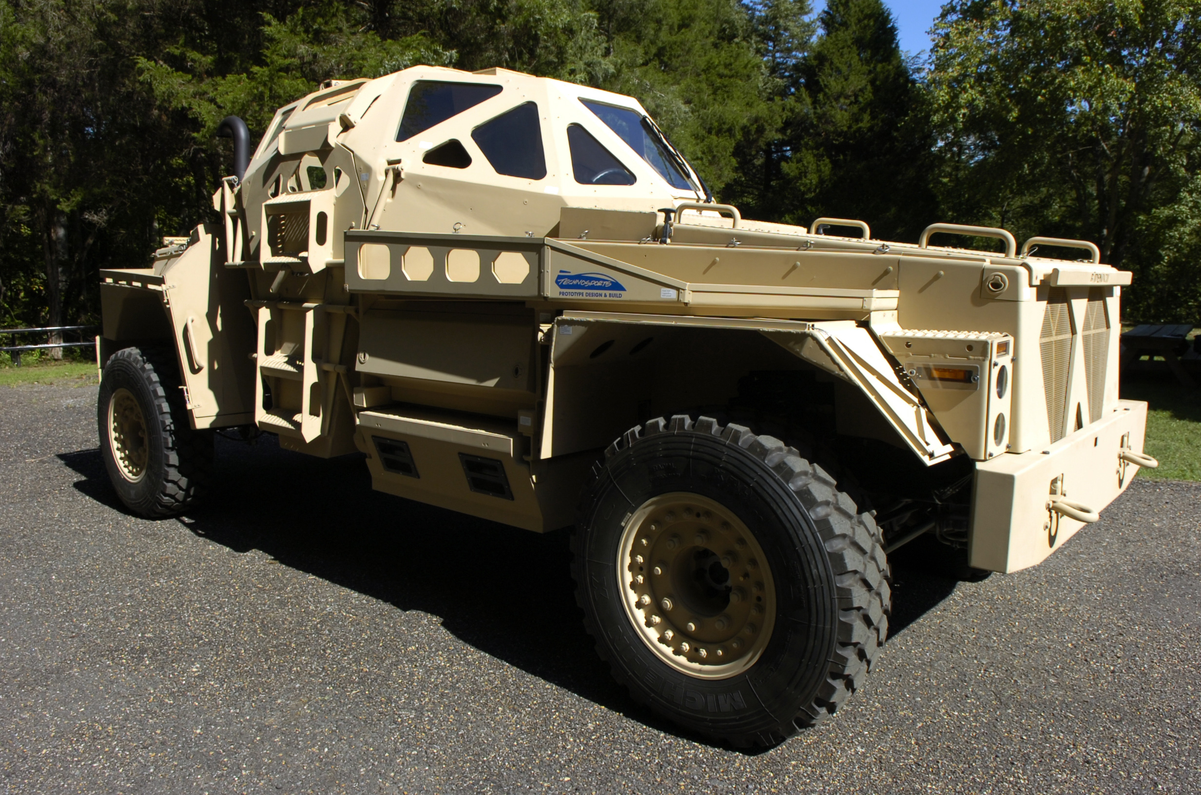 Quantico, Va. (Sept. 7, 2005) - The Ultra Armored Patrol Vehicle is a research project funded by the Office of Naval Research (ONR), at the Georgia Technology Research Institute. The project’s goal is to develop a prototype vehicle that demonstrates improved ballistic and mine protection technologies. An innovative survivable crew capsule, which utilizes a new combination of armor materials, is mounted on a commercial truck chassis. Faceted crew capsule geometries are being used to provide better deflection of pressure waves from blasts when compared to current configurations. The Ultra is slightly larger than the High Mobility Multipurpose Wheeled Vehicle (HMMWV) and is diesel powered. U.S. Navy photo by Mr. John F. Williams (RELEASED)